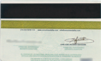 Specimen of the Mexican CID card (high-security) (back side) A.K.A. Matricula Consular de Alta Seguridads